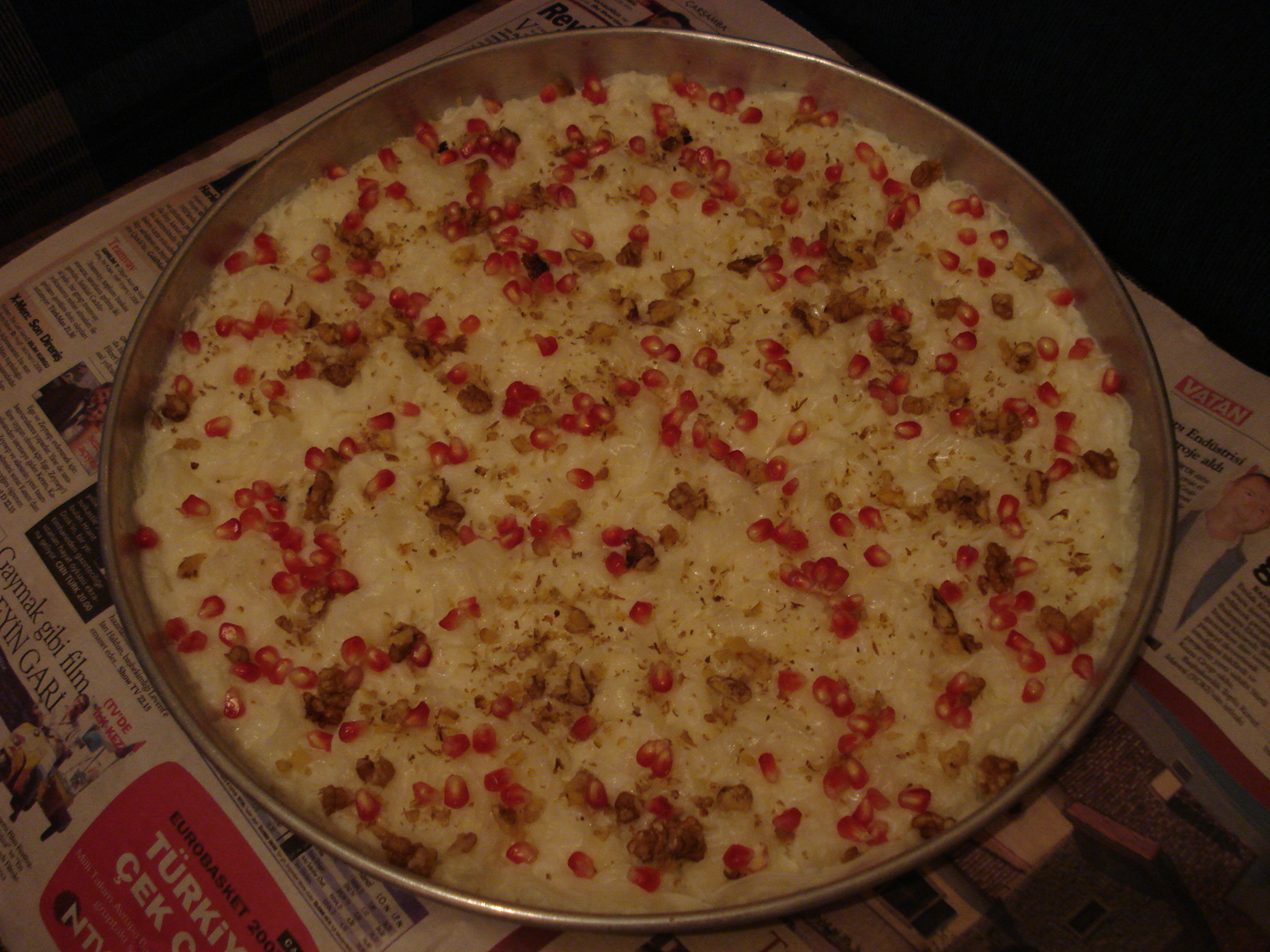 Güllaç, a kind of milky dessert from Turkish cuisine